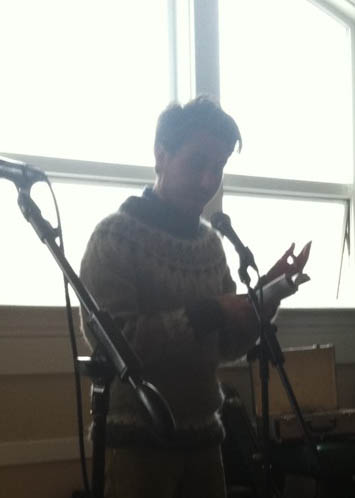 Writer Aaron Peck reads from his book "Letters to the Pacific" at What the Heck Fest, July 2011.